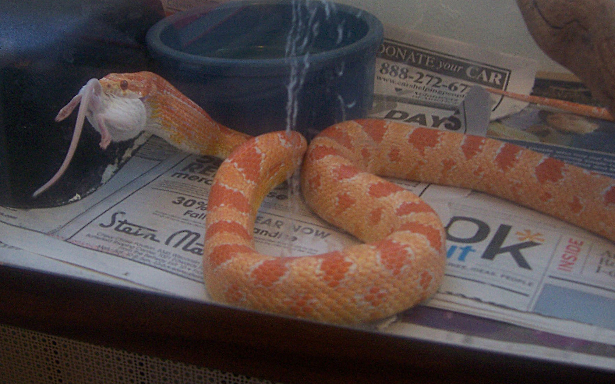 A corn snake eating a mouse.